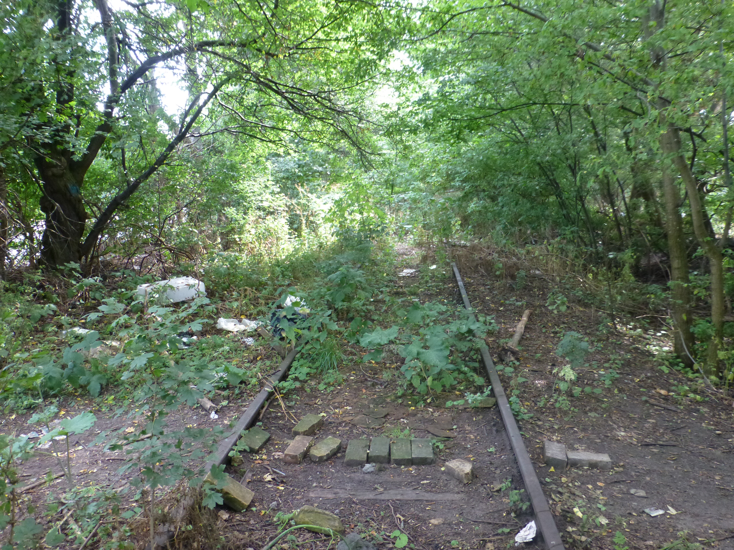 Along the tracks of the closed railway Amagerbanen in Copenhagen. Overgrown tracks at the street Ved Amagerbanen.